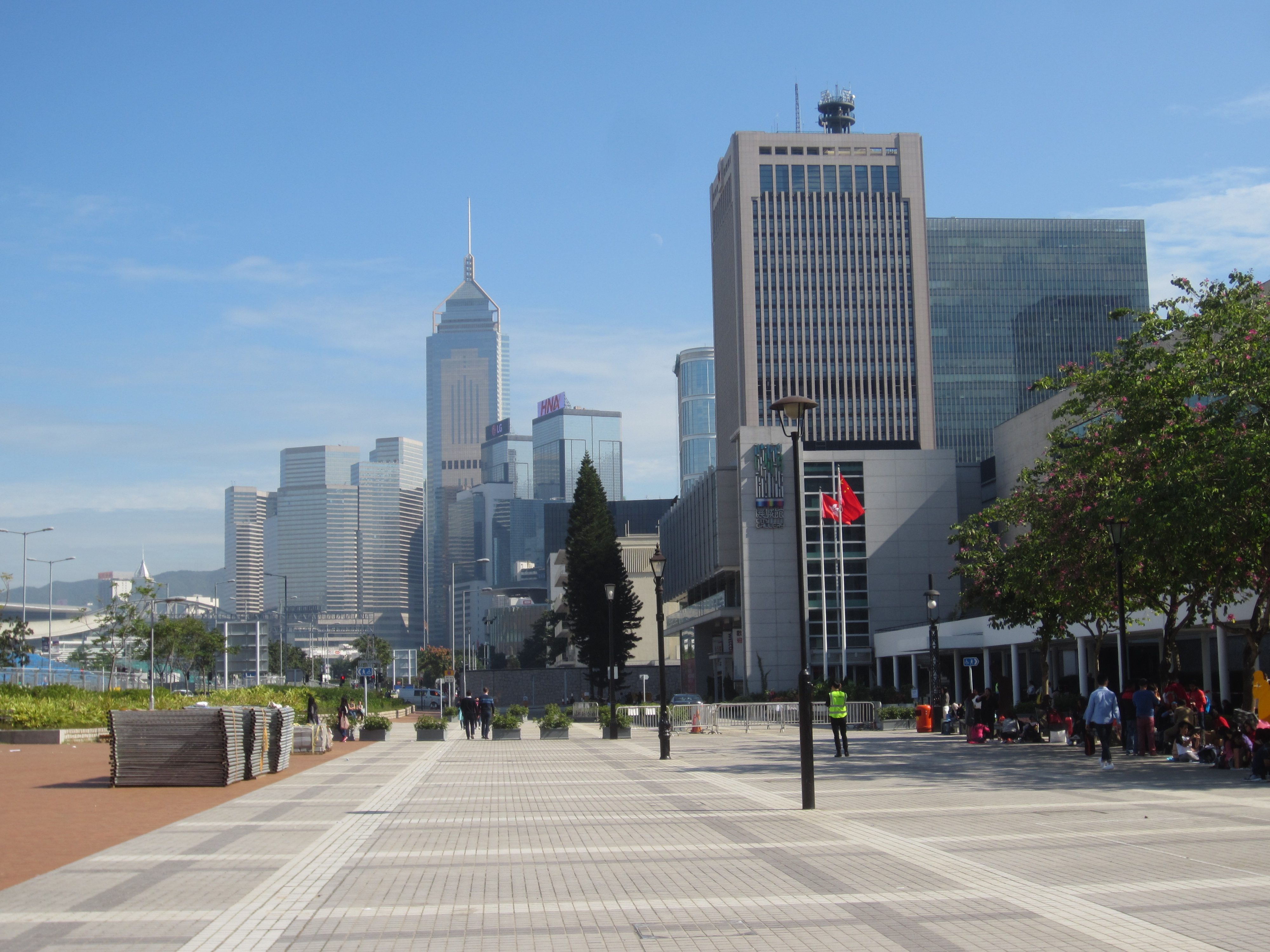 Hong Kong (November 2017)